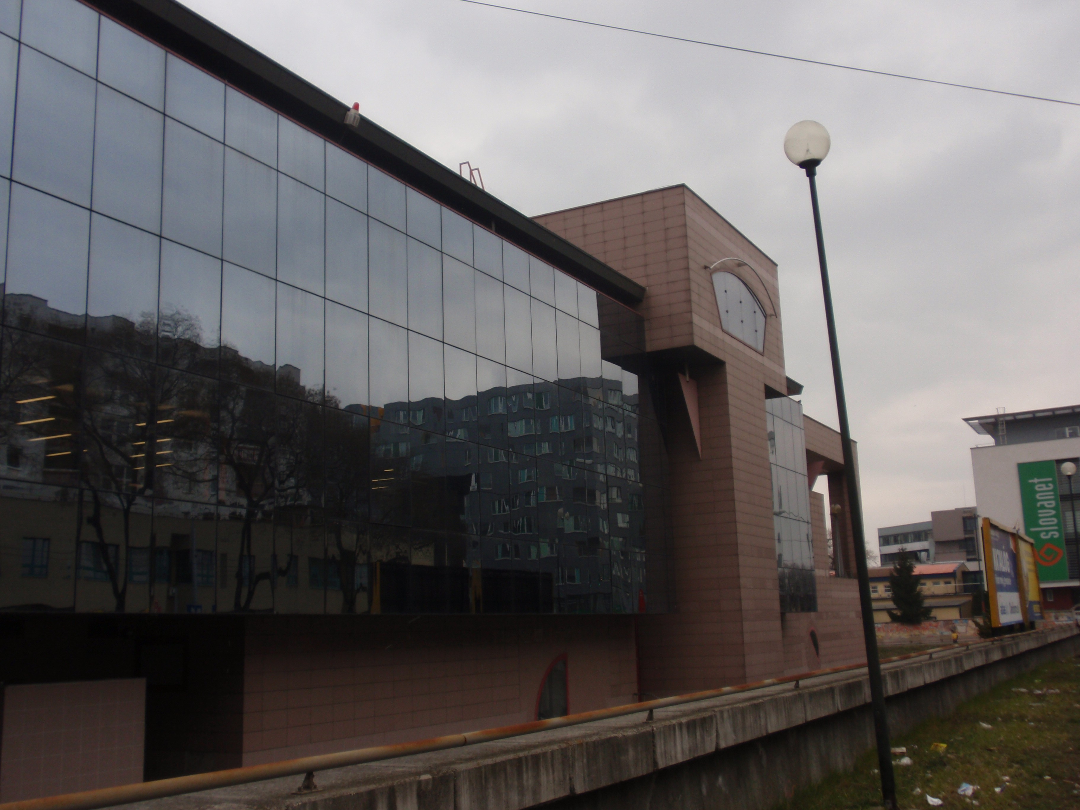 Building of Okrskové centrum Ružinov in Bratislava, Slovakia.